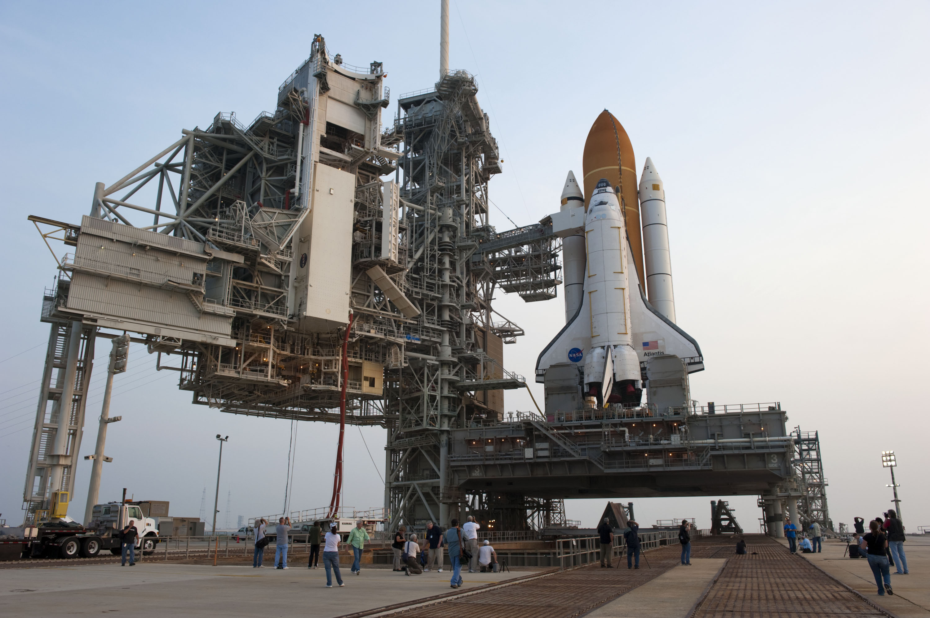 At NASA's Kennedy Space Center in Florida media snap photos of space shuttle Atlantis on Launch Pad 39A after the payload canister carrying the Raffaello multi-purpose logistics module (MPLM) was lifted into the payload changeout room on the rotating service structure. Commander Chris Ferguson, Pilot Doug Hurley and Mission Specialists Sandra Magnus and Rex Walheim are targeted to lift off on space shuttle Atlantis July 8, taking with them the MPLM packed with supplies, logistics and spare parts to the International Space Station. The STS-135 mission also will fly a system to investigate the potential for robotically refueling existing satellites and return a failed ammonia pump module to help NASA better understand the failure mechanism and improve pump designs for future systems. STS-135 will be the 33rd flight of Atlantis, the 37th shuttle mission to the space station, and the 135th and final mission of NASA's Space Shuttle Program.